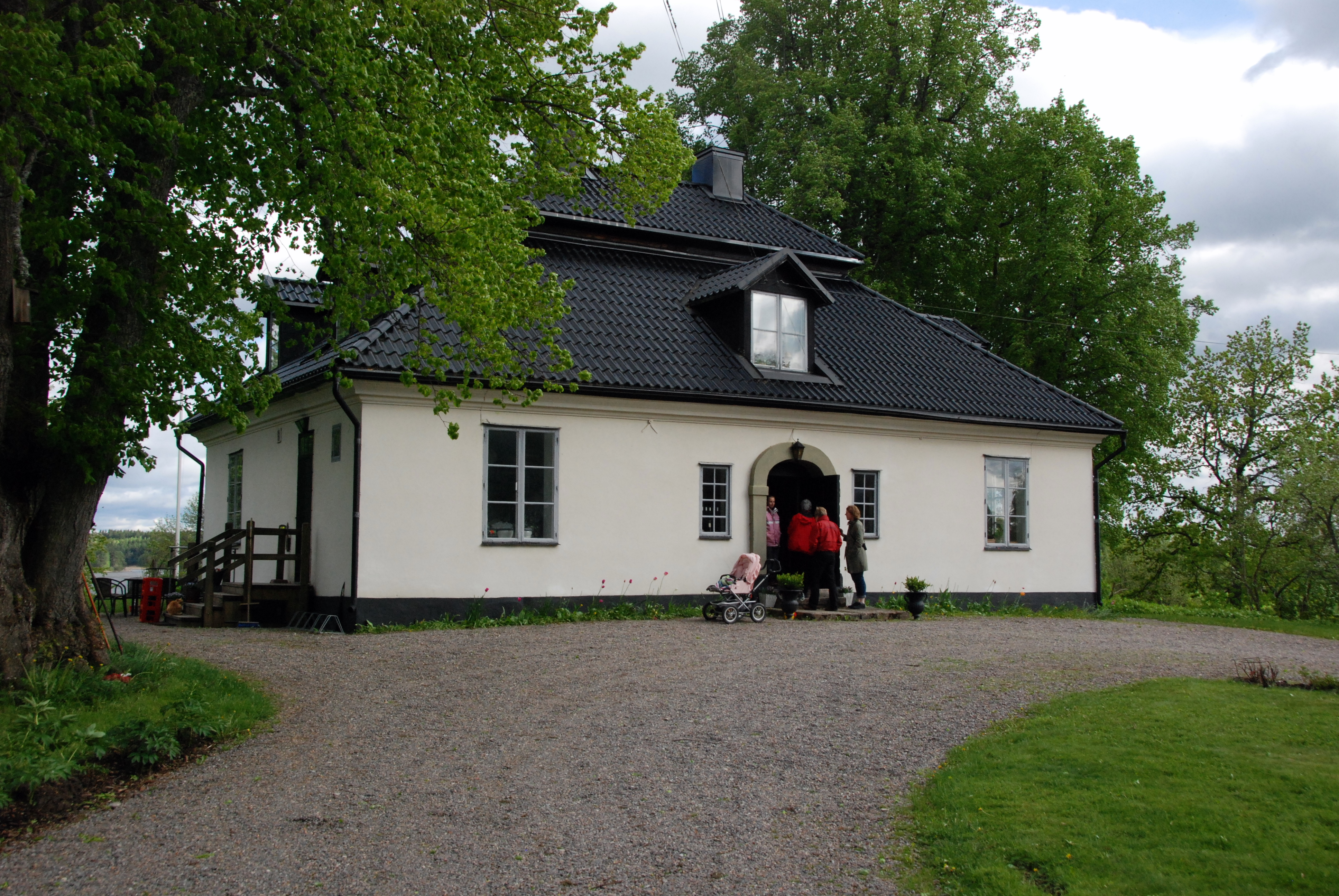 Ådö, main building